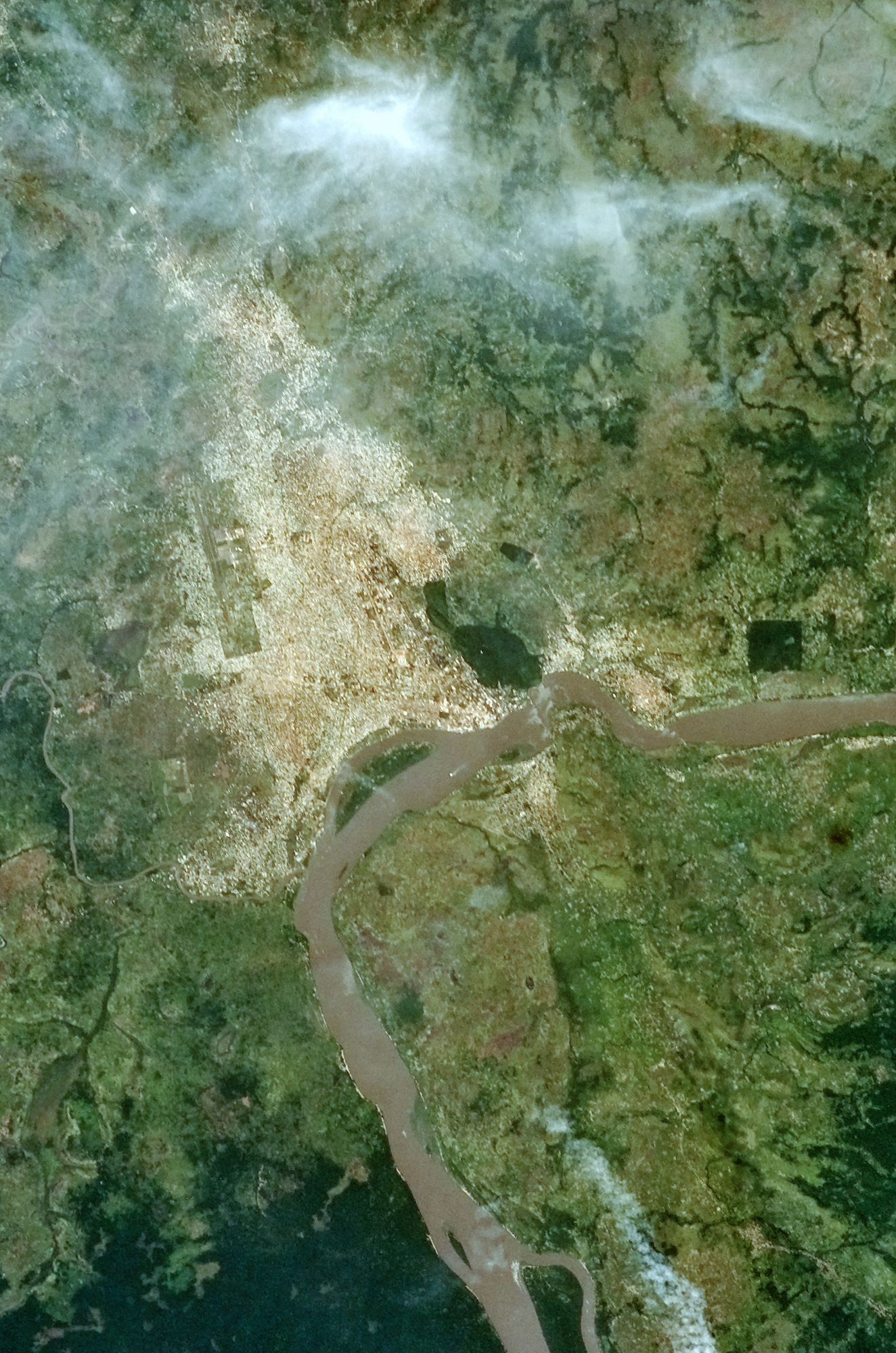 Astronaut Photo of Bangui, Central African Republic taken from the International Space Station (ISS) during Expedition 12 on November 11, 2005.